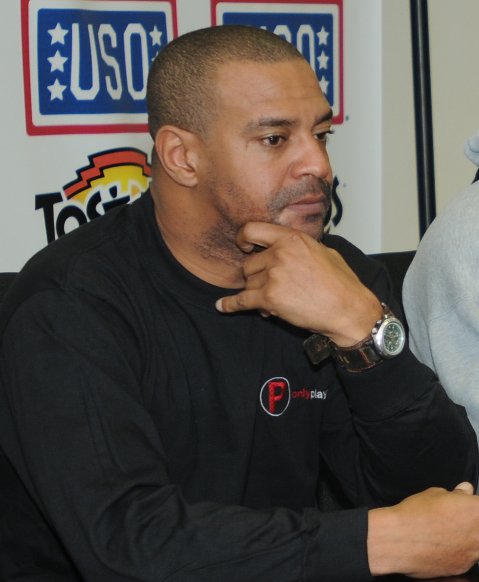 (Left to right) Antonio Freeman, former Green Bay Packers wide receiver, LaVar Arrington, former Washington Redskins linebacker, and Rodney Peete, former Philadelphia Eagles quarterback, talk with service members about their experiences with the military and the NFL as a part of the players and coaches interview during Tostitos "Connect to Home Bowl" a joint effort with the United Service Organization at Joint Base Balad, Iraq, on Dec. 20. Arrington went into depth about his experience as a linebacker and how he played each down like it was his last. "With that mentality, you do not go out there with the intention of hurting anyone, but I darn sure go out there with the intentions of impacting everyone’s life that is out there on the field with me, especially who is on the other side of the ball," said Arrington.